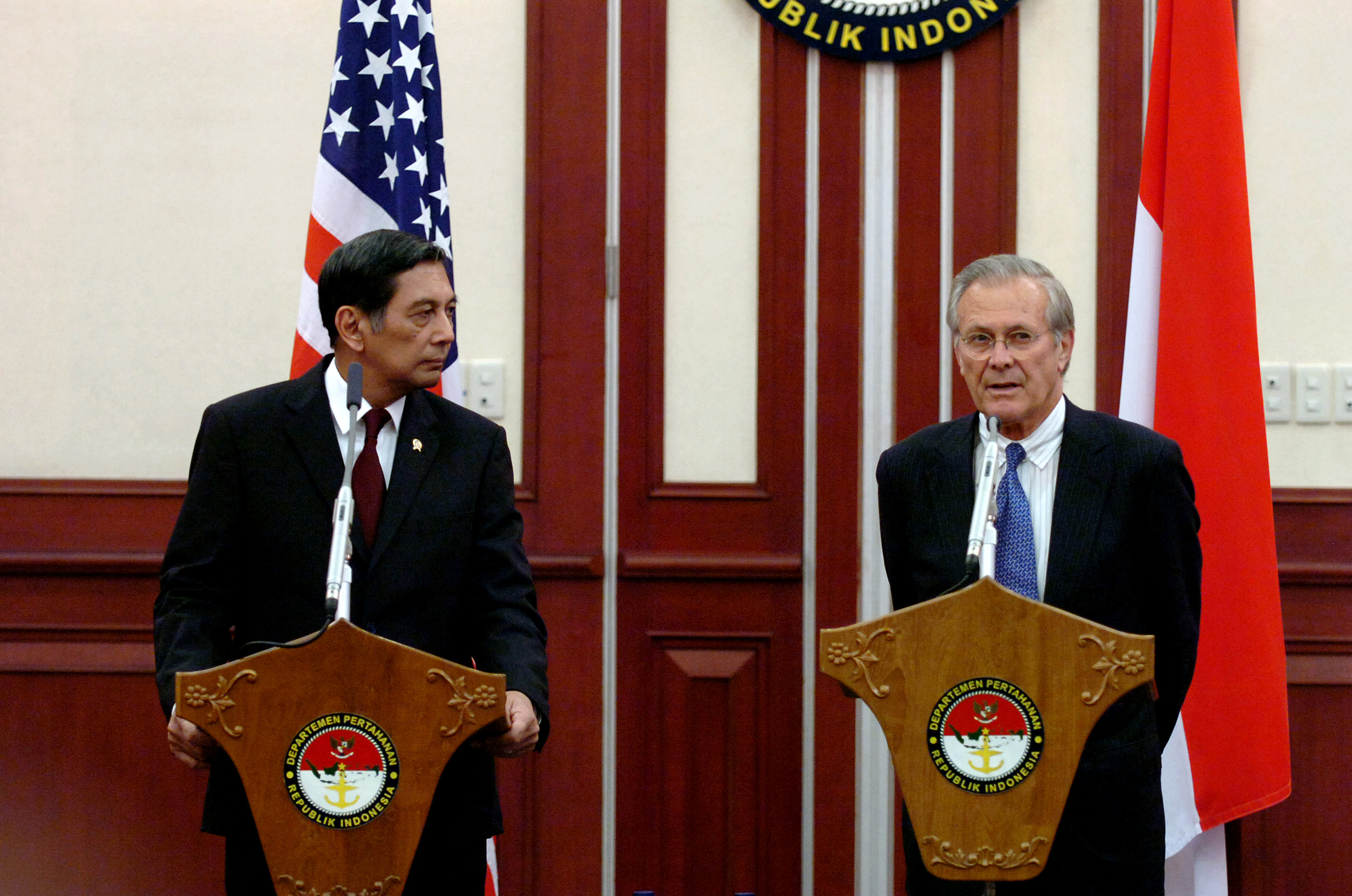 U.S. Secretary of Defense Donald H. Rumsfeld and Indonesian Minister of Defense Juwono Sudarsono, during a press conference at the Ministry of Defense in Jakarta, Indonesia, on June 7, 2006.